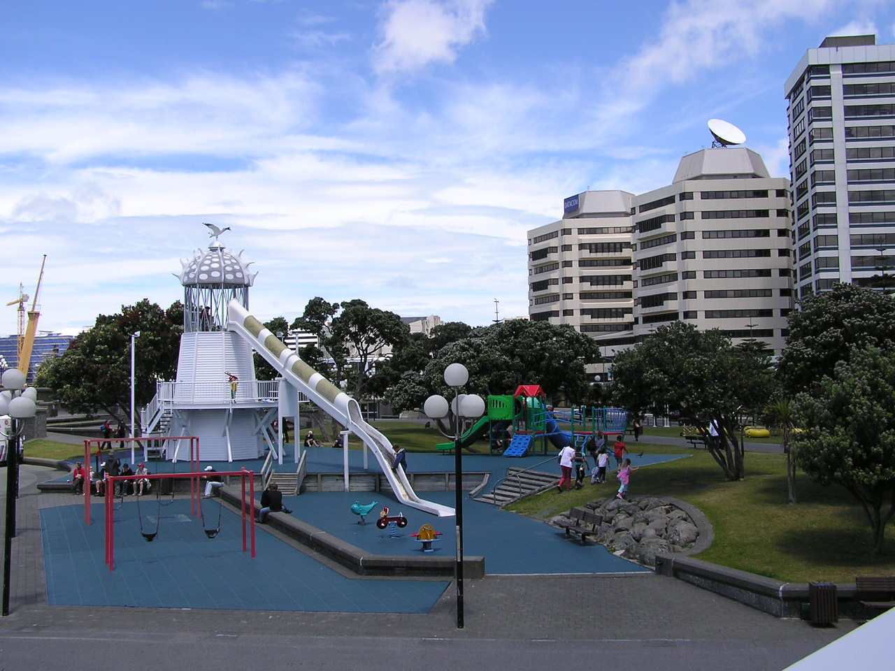 Frank Kitts Park with some buildings on Jervois Quay in the background. Wellington, New Zealand.